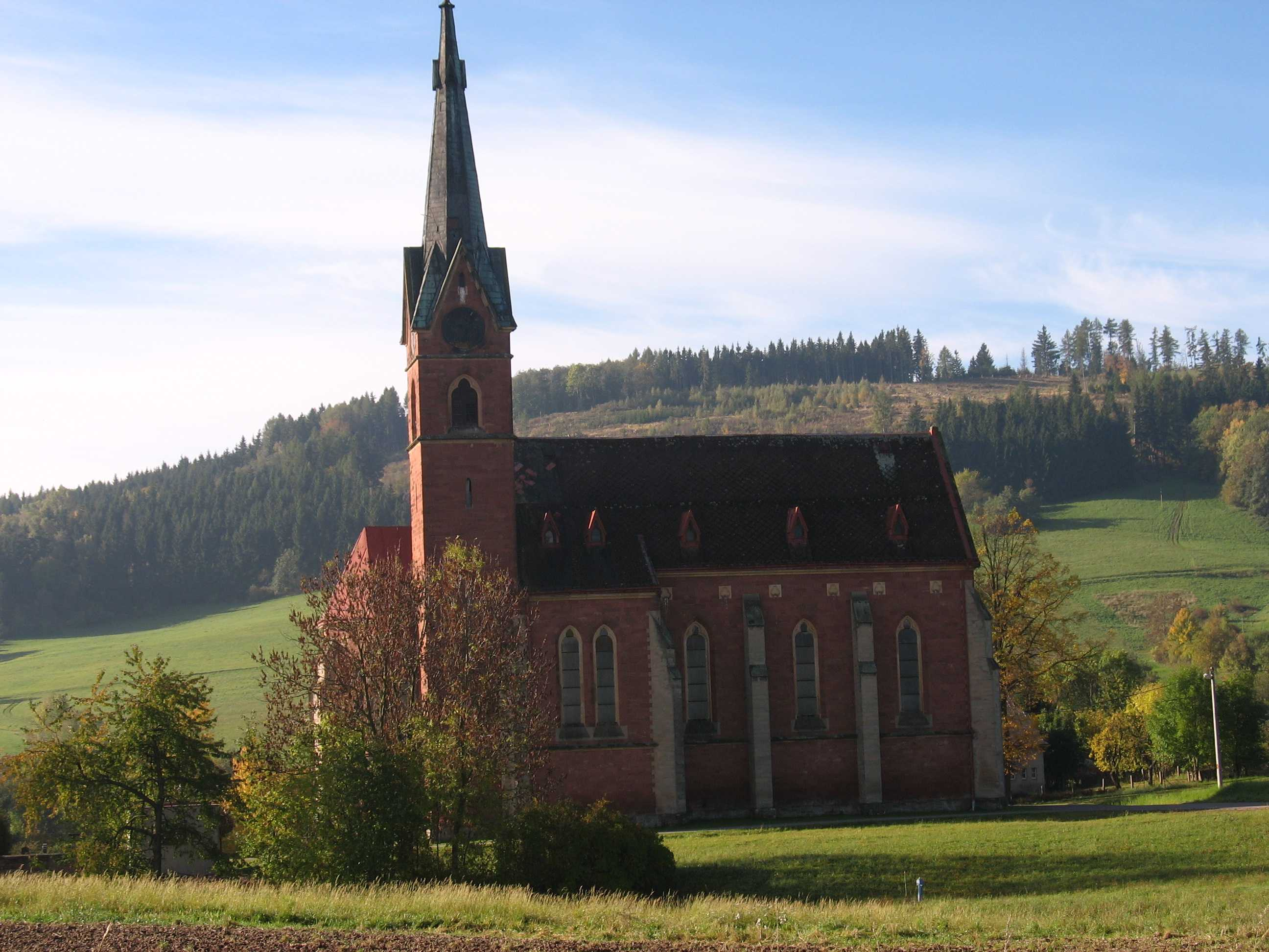 A church of st. John of Nepomuk in Zalesni Lhota.